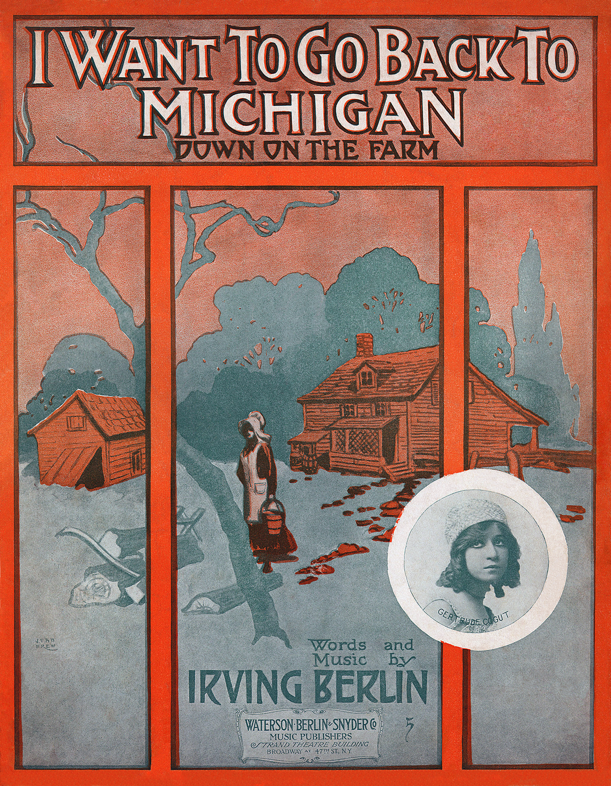 Cover page to "I Want to Go Back to Michigan", a song by Irving Berlin (1st ed.)